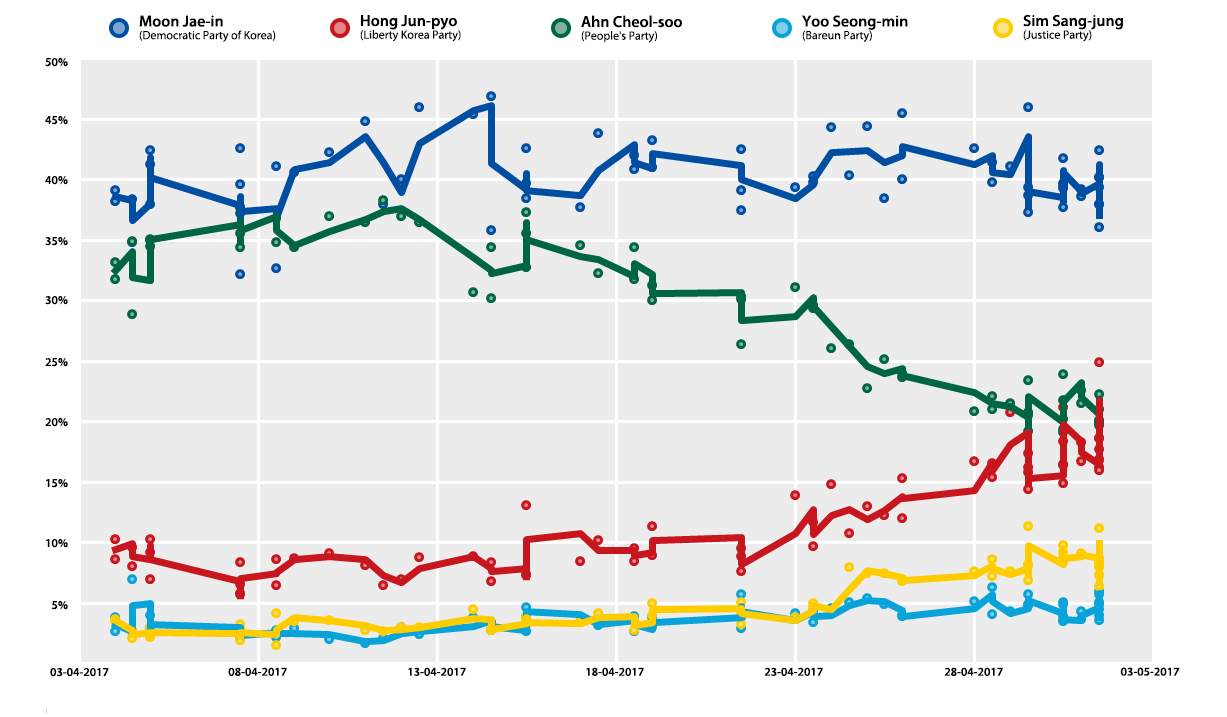 2017 Korea Presidential Election Opinion Polling Diagram (Since 1.4.2017)